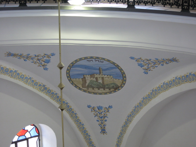 Painting of the Tower of David in a corner of the Hurva Synagogue in the Jewish Quarter of the Old City of Jerusalem